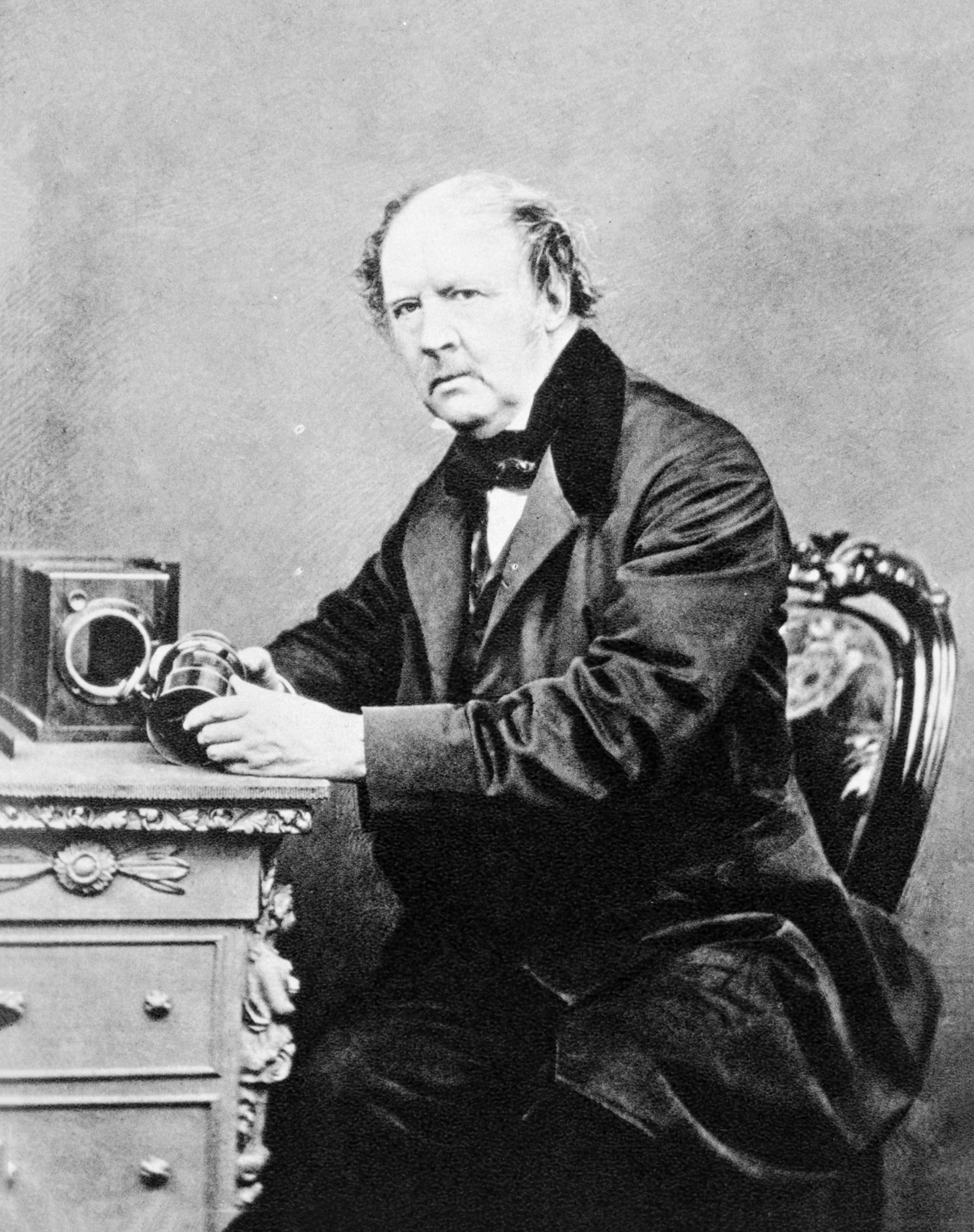 William Henry Fox Talbot, by John Moffat of Edinburgh, May 1864.